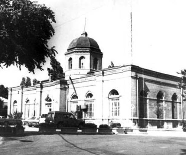 Tehran Radio Station 1960s